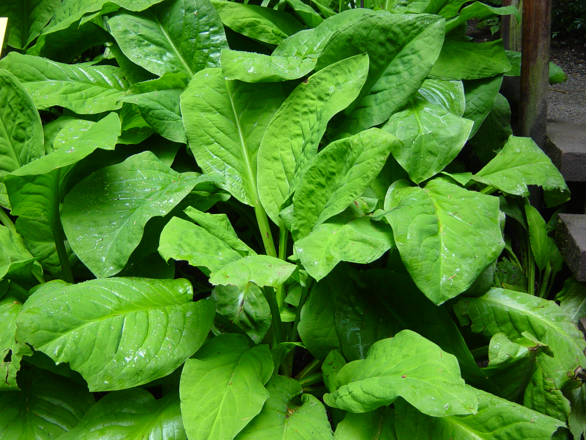 Image taken in North Vancouver's Capalano Park by User:Leonard G.. The leaves are about 11 to 14 inches long, 4 to 6 inches wide.